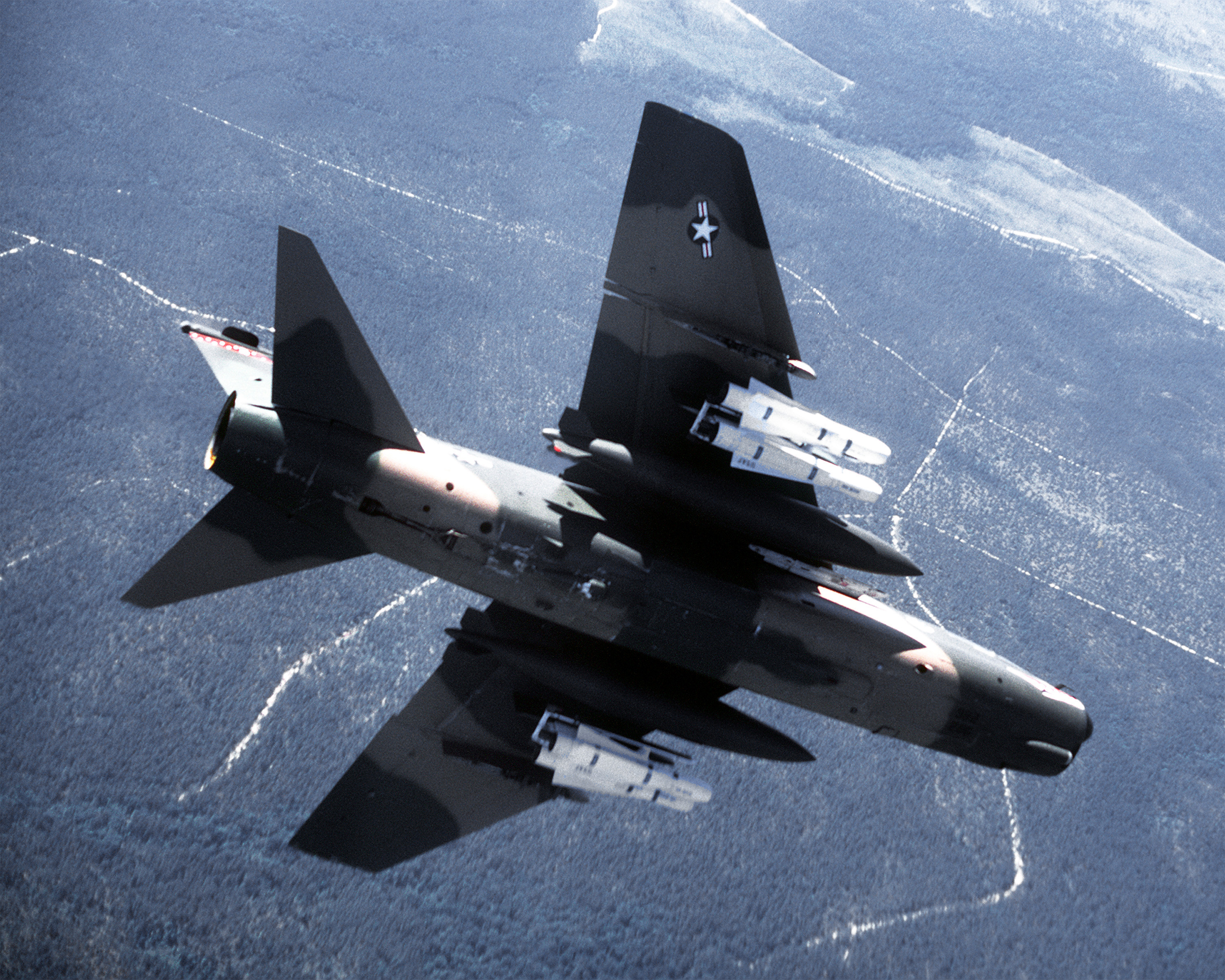 An air-to-air underside view of an A-7D Corsair II aircraft banking to the left over a range. Two AGM-65 Maverick missiles and one auxiliary fuel tank are on each wing. The aircraft is assigned to the 76th Tactical Fighter Squadron, 23rd Tactical Fighter Wing. Taken over Nellis AFB, Nevada.